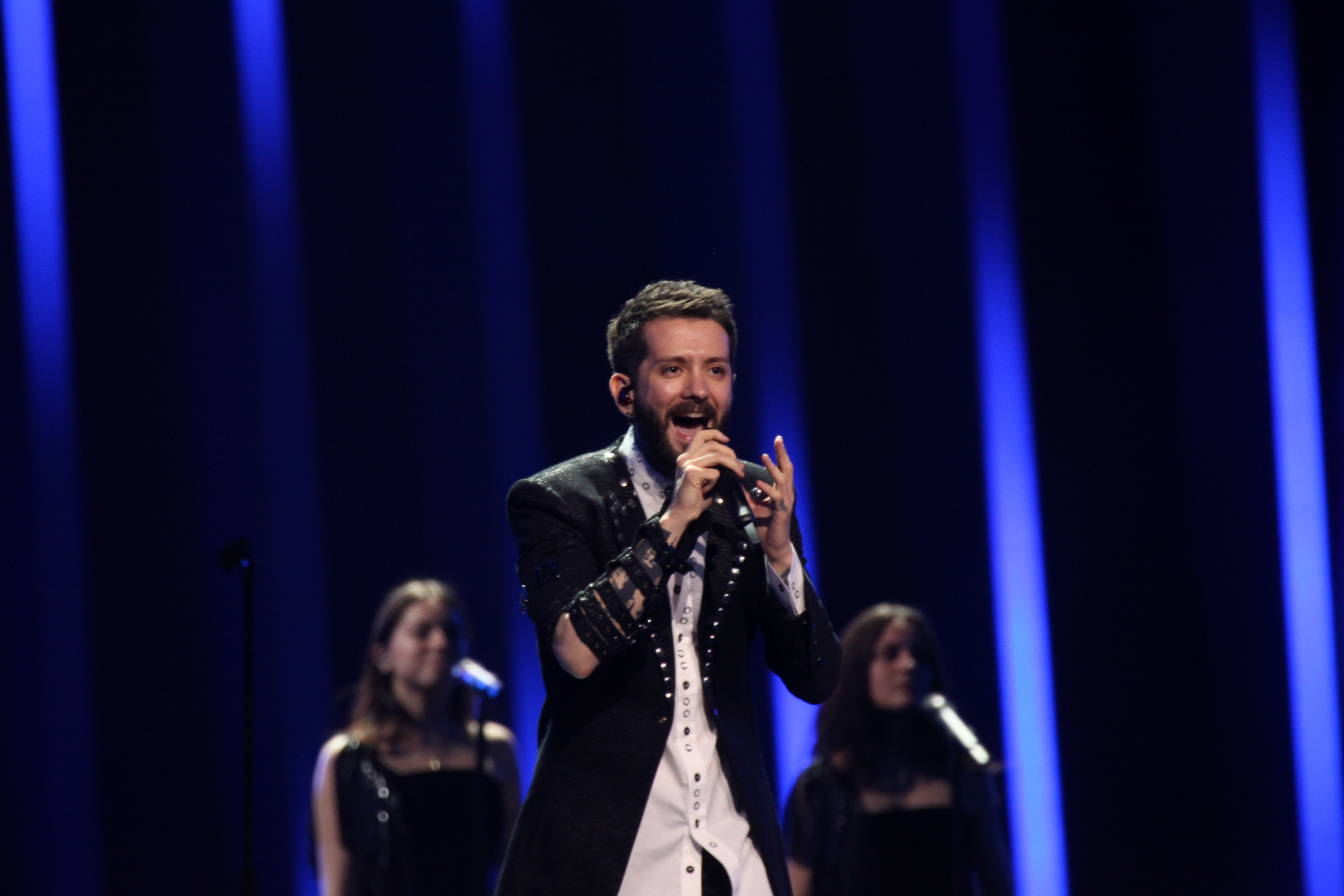 Eugent Bushpepa representing Albania with the song "Mall" during a rehearsal before the grand final of the Eurovision Song Contest 2018 in Lisbon.